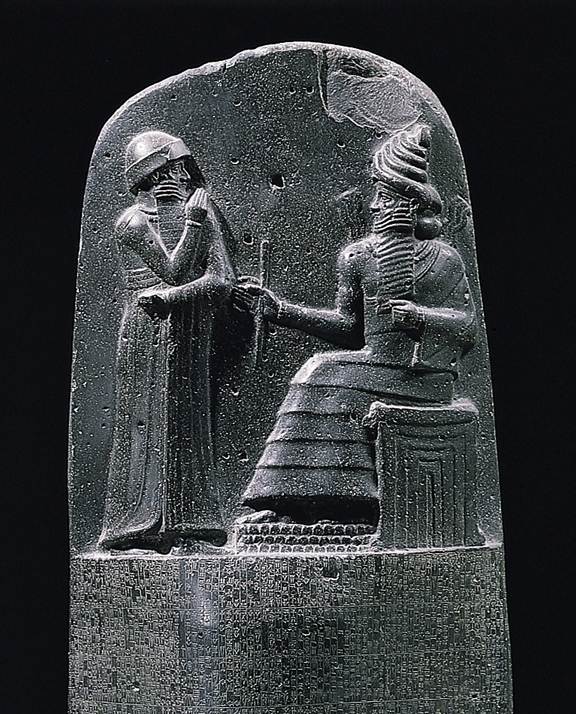 The upper part of the stela of Hammurapis' code of laws